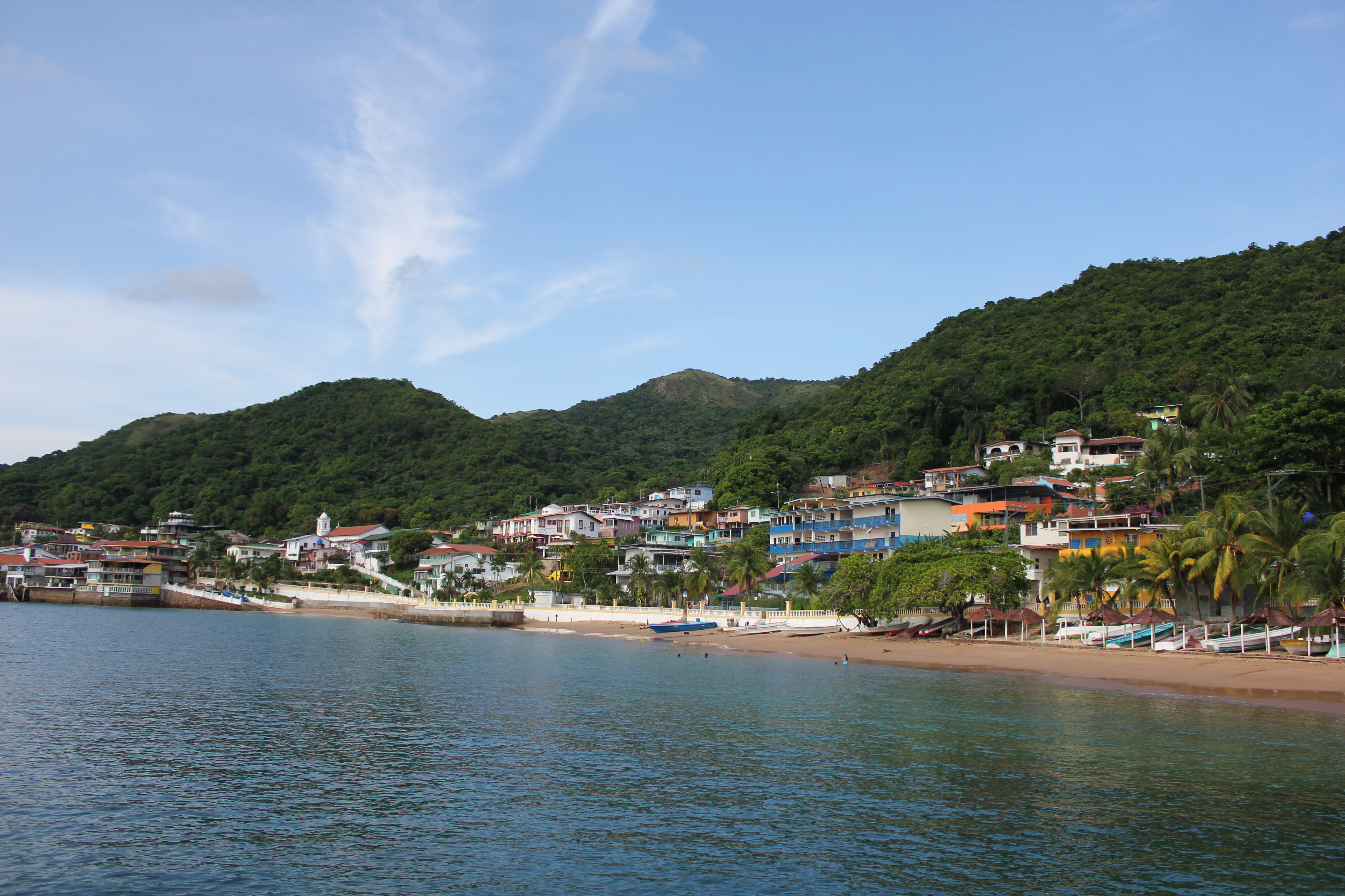 View of the town from the main Taboga dock. Taboga Island. Panama.